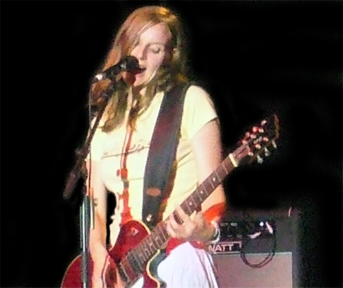 Judith Holofernes live at Openair Gampel 2005